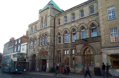 Oxford Post office, 102–104 St Aldate's, Oxford OX1, seen from the northeast